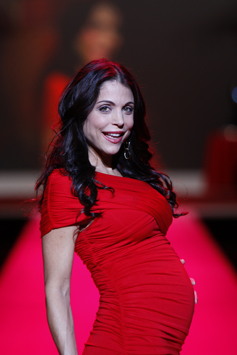 The Heart Truth® is a national awareness campaign for women about heart disease sponsored by the National Heart, Lung, and Blood Institute (NHLBI), part of the National Institutes of Health, U.S. Department of Health and Human Services (HHS). The Red Dress®, introduced by the NHLBI in 2002, is the national symbol for women and heart disease awareness. Visit for information on women and heart disease.®, TM The Heart Truth, its logo and The Red Dress are trademarks of HHS. Participation by Mercedes-Benz Fashion Week, Diet Coke, Swarovski, Tylenol, St. Joseph's Aspirin, Bobbi Brown, and Brian Atwood does not imply endorsement by HHS.